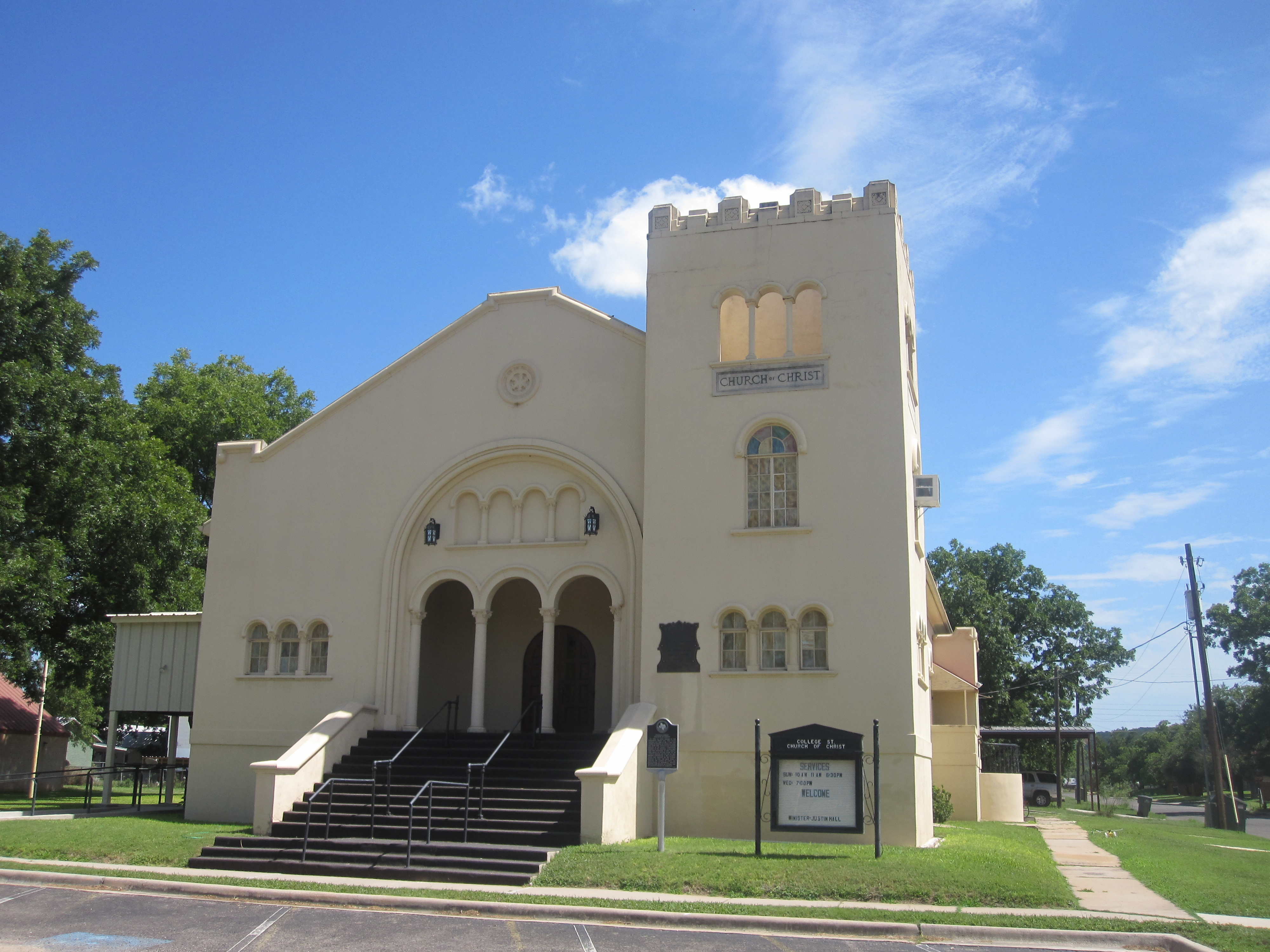 I took photo with Canon camera in Junction, TX.